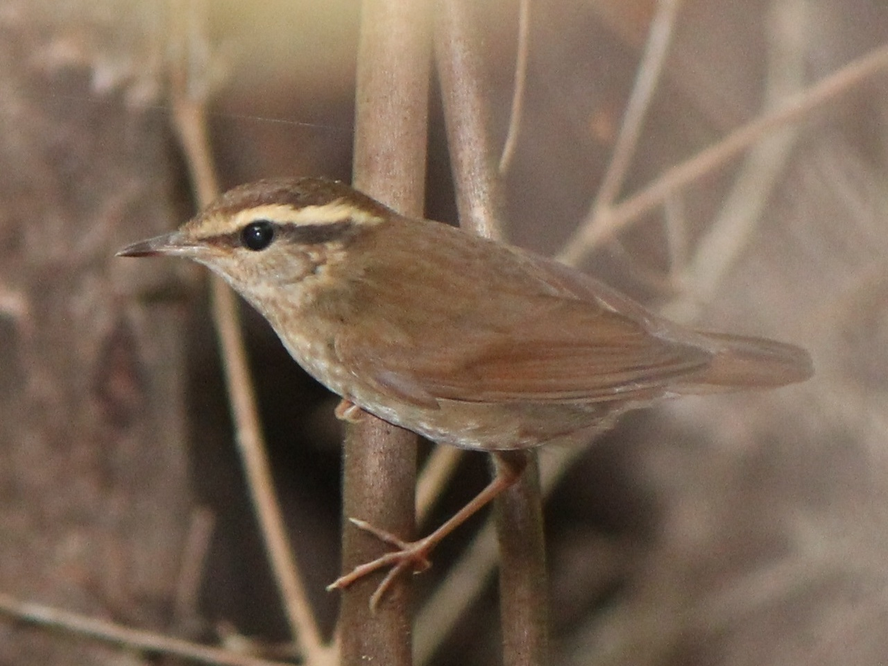 Asian Stubtail (Urosphena squameiceps) in Aichi prefecture, Japan.